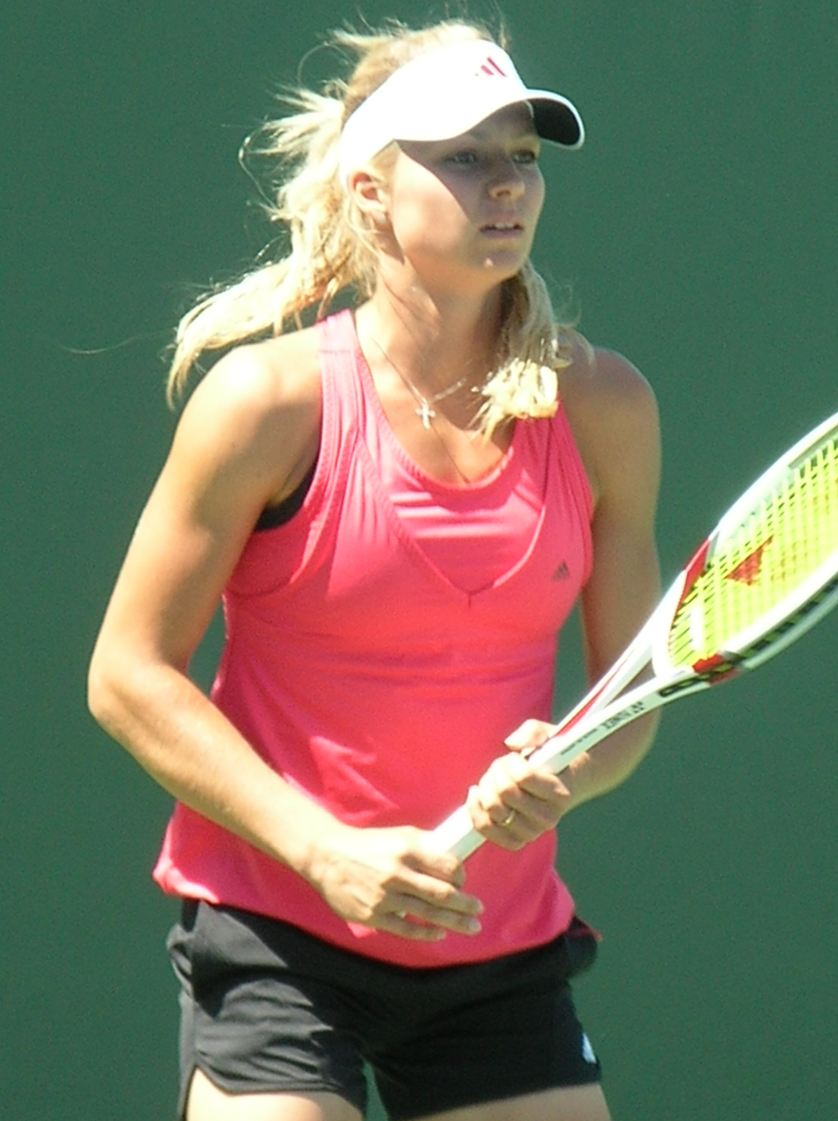 Maria Kirilenko practicing at the Bank of the West Classic at Stanford.